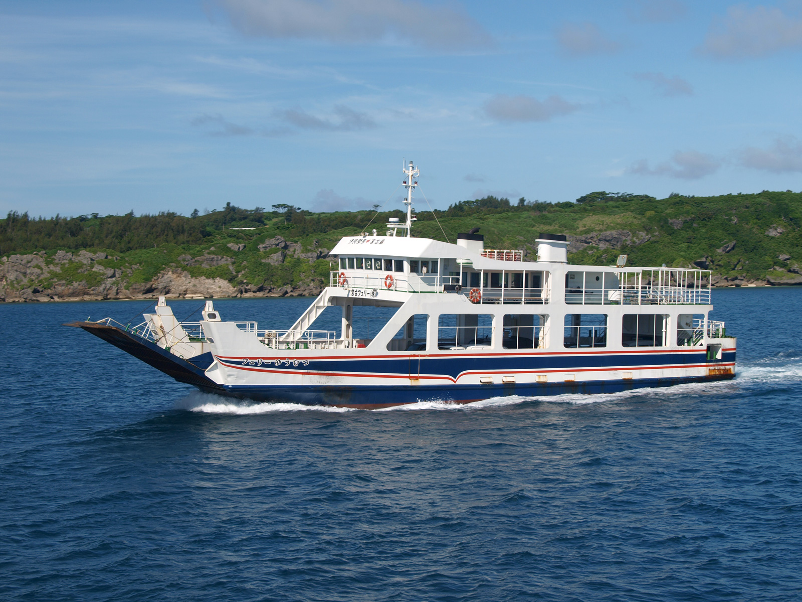 Ferry Yumutsu between Miyako Island and Irabu Island, Okinawa, Japan